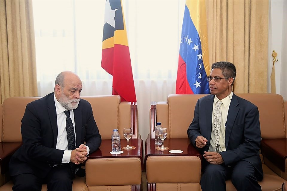 MoFAC, 9 December 2019 - Ambassador Jorge Camões, Secretary General of the Ministry of Foreign Affairs and Cooperation, received a courtesy call from H.E. Mr. Ruben Dario Molina, Venezuelan Deputy Minister of Foreign Affairs. They discussed bilateral relations between the two countries. This courtesy call was held in the Ministry of Foreign Affairs and Cooperation (MoFAC) meeting room. Director General for Bilateral Affairs of MoFAC, Mr. Domingos Savio, and interim director for MoFAC America and Caribbean Affairs, Mrs. Ines Moreira accompanied them.